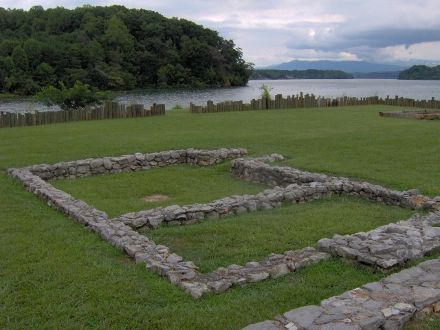 The foundation of the Tellico Factory, on the civilian side of the Tellico Blockhouse, looking south. Image by Brian Stansberry.